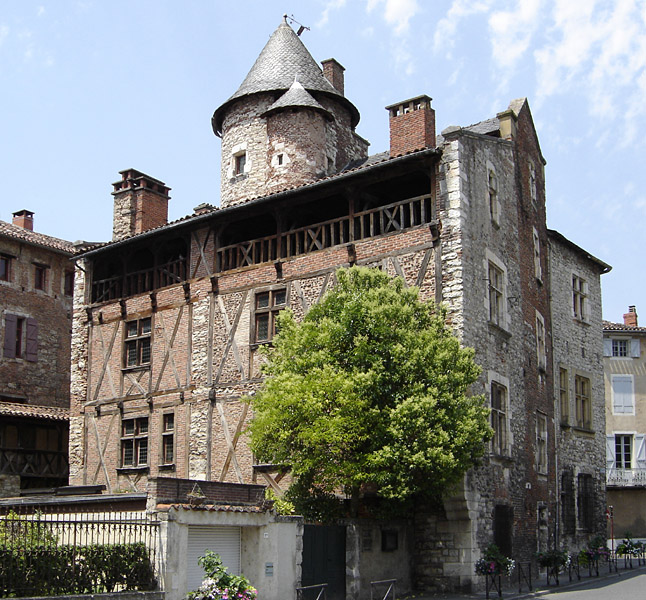 The 15th century Hôtel de Roaldès, also called 'House Henry IV' at Cahors, France.